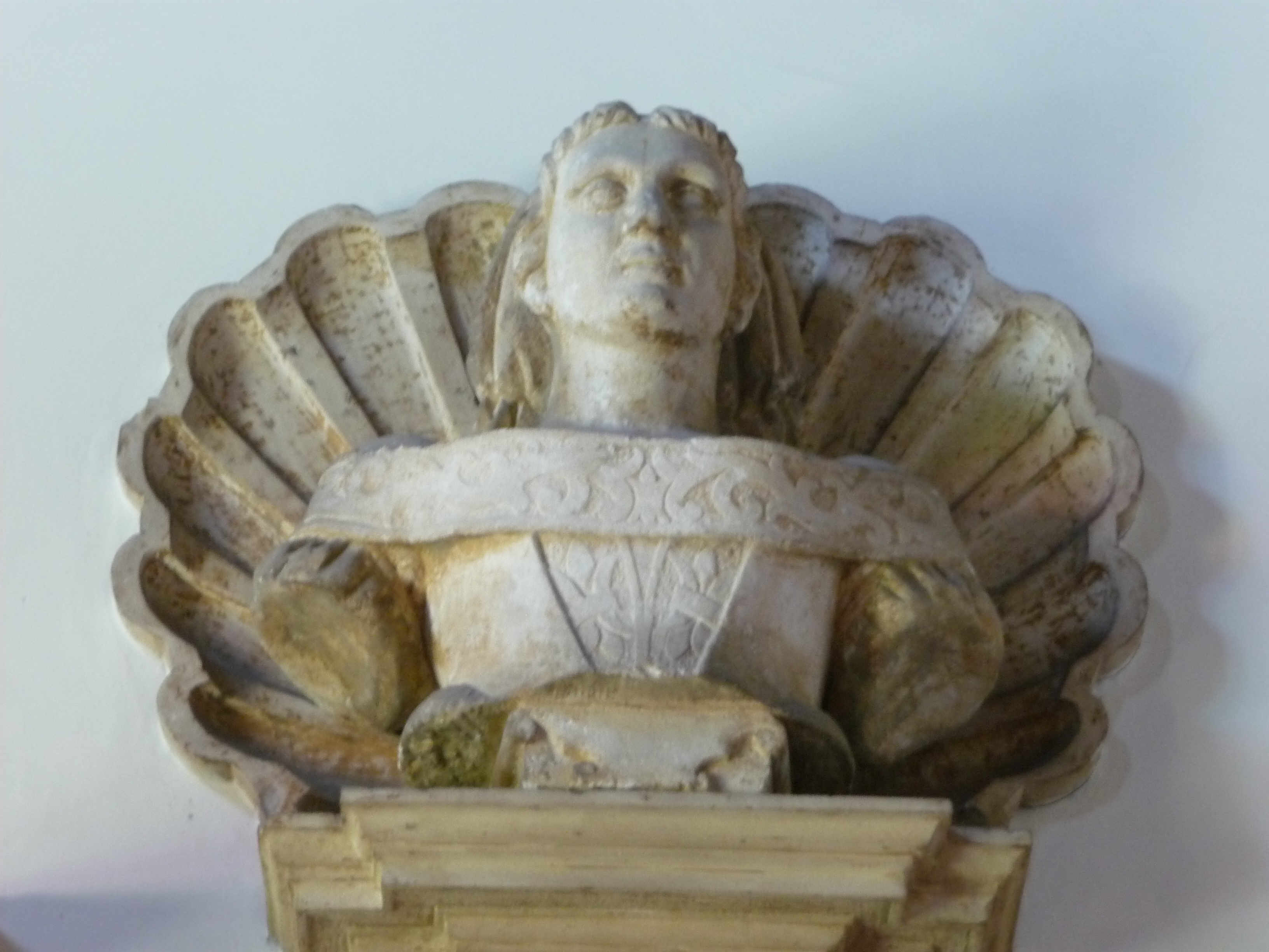 Palazzo Valmarana in Vicenza, Corso Fogazzaro, built by Andrea Palladio in 1565.